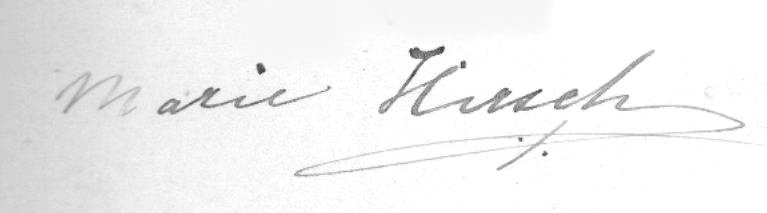 Signature of German Writer Marie Hirsch